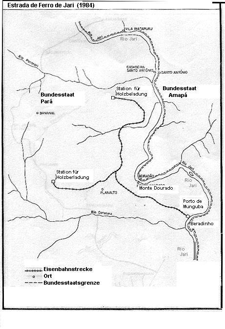 Map of the railway line Estrada de Ferro Jari, Pará, Brazil